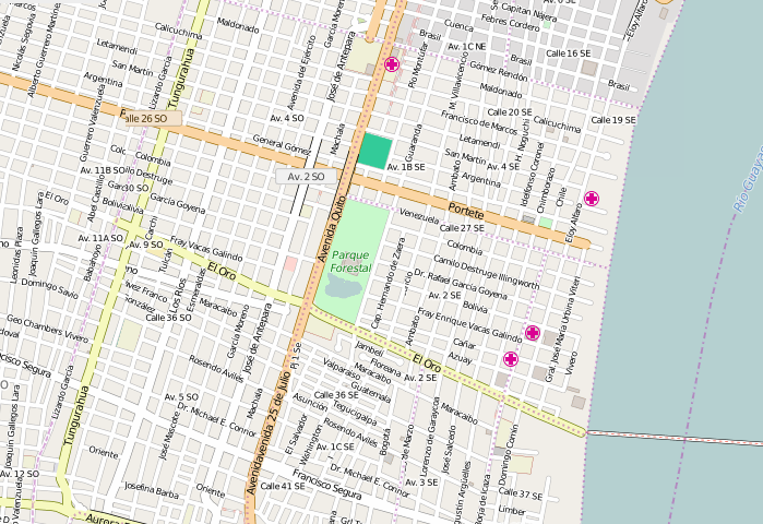 This map may be incomplete, and may contain errors. Don't rely solely on it for navigation.